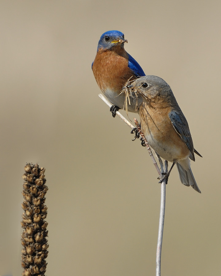 Pair of Eastern Bluebirds.